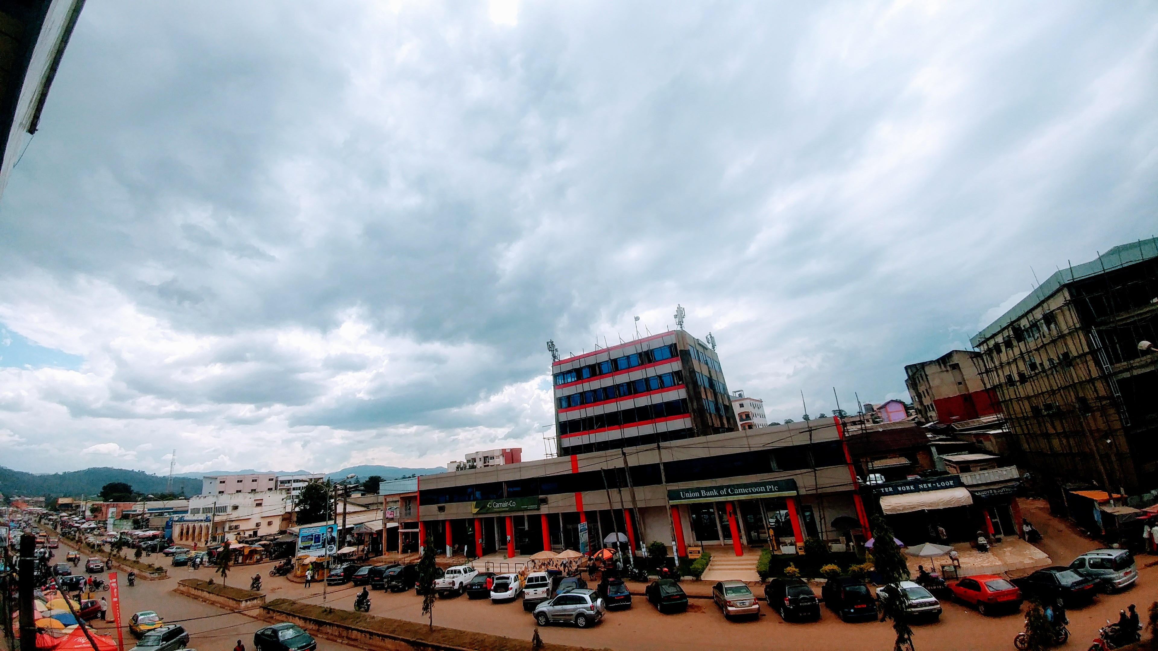 This is Commercial Avenue in the North Western city of Bamenda, Cameroon. It is the commercial hub of the city lined up with banks, shops, offices and the city's main market. This is an image with the theme "Africa on the Move or Transport" from: Cameroon